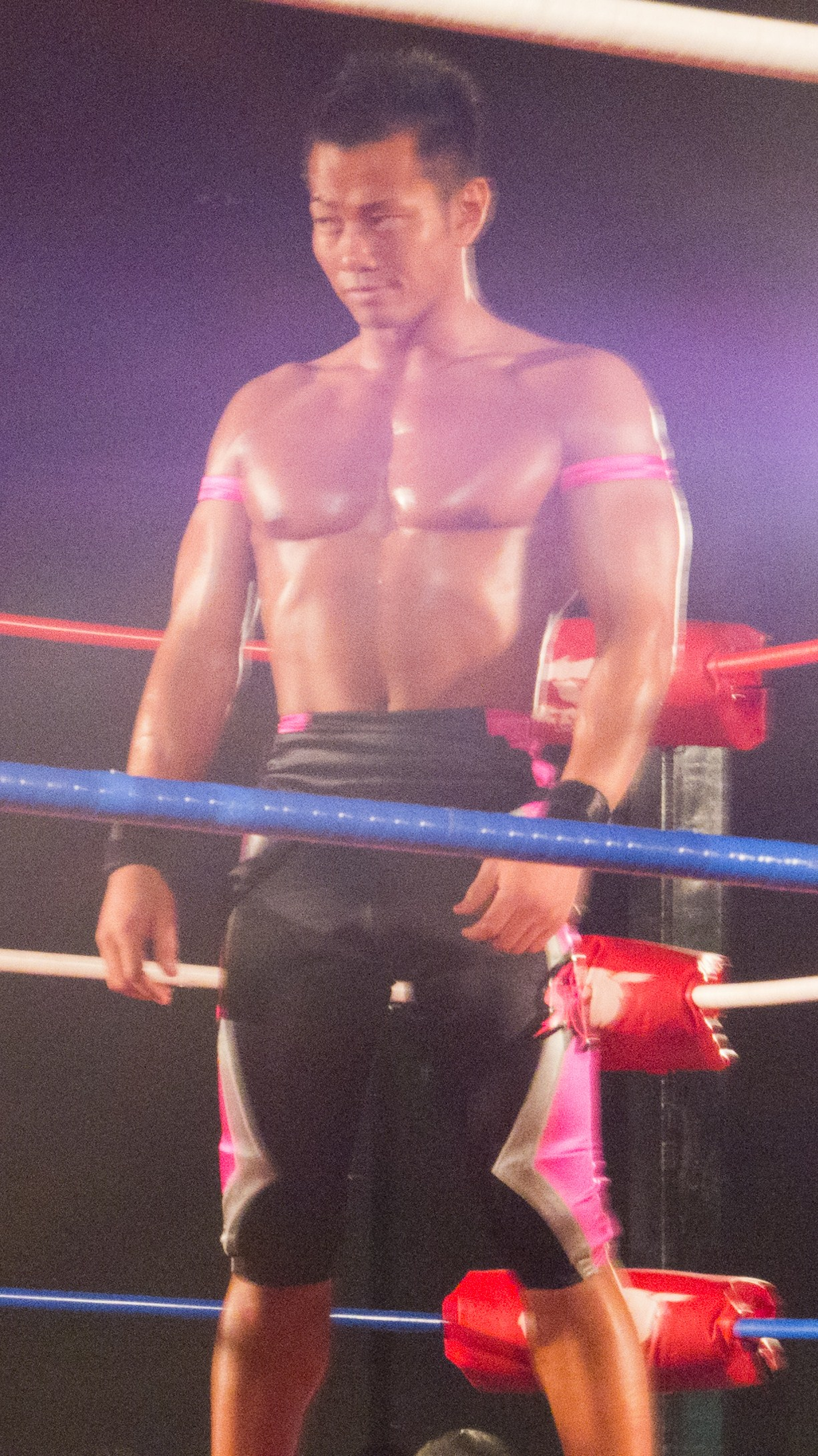 Masato Yoshino at the Open the Ultimate Gate event on March 30, 2012 in North Shore, Miami Beach, Florida, United States.